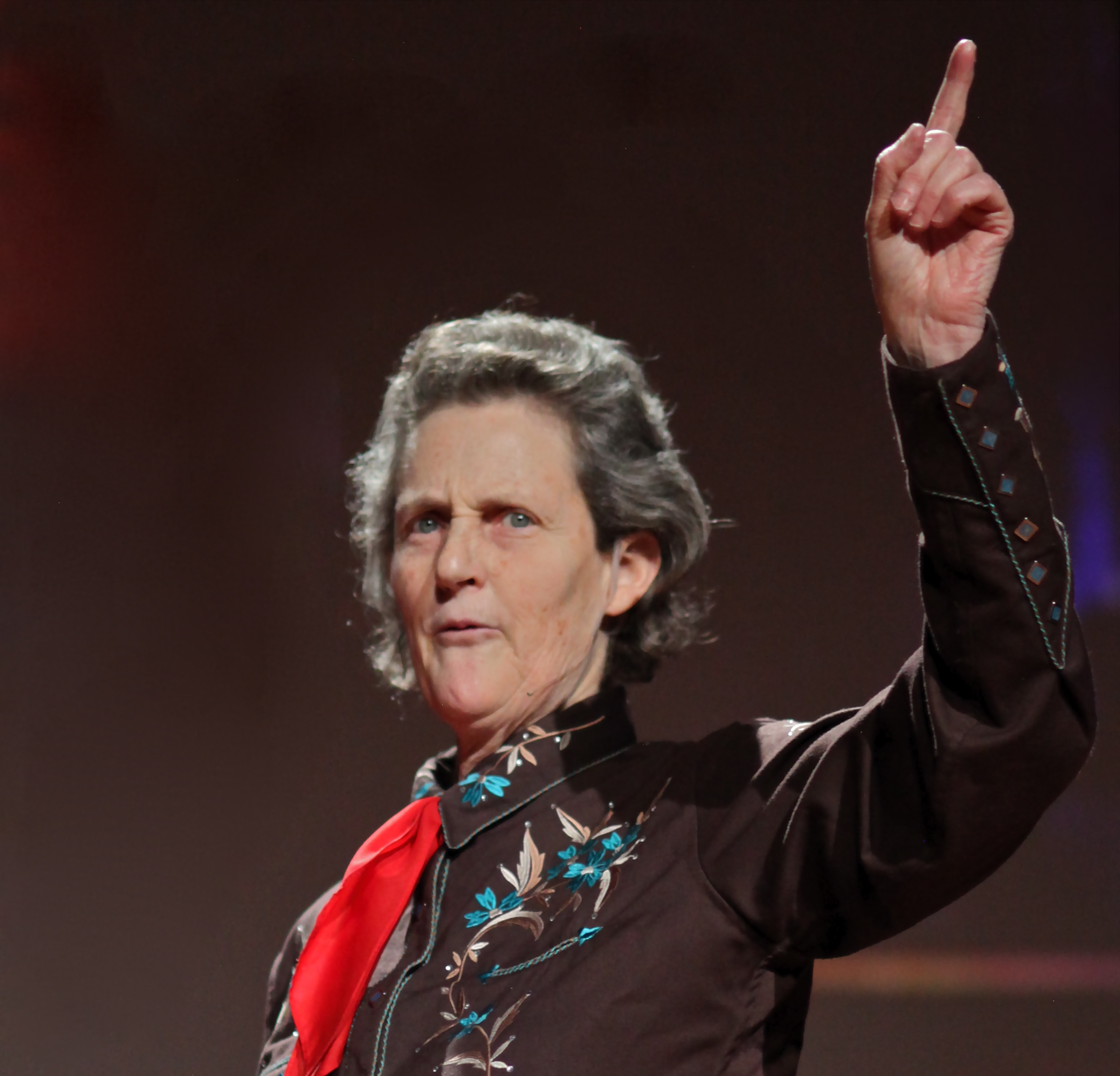 Temple Grandin’s talk at TED 2010.